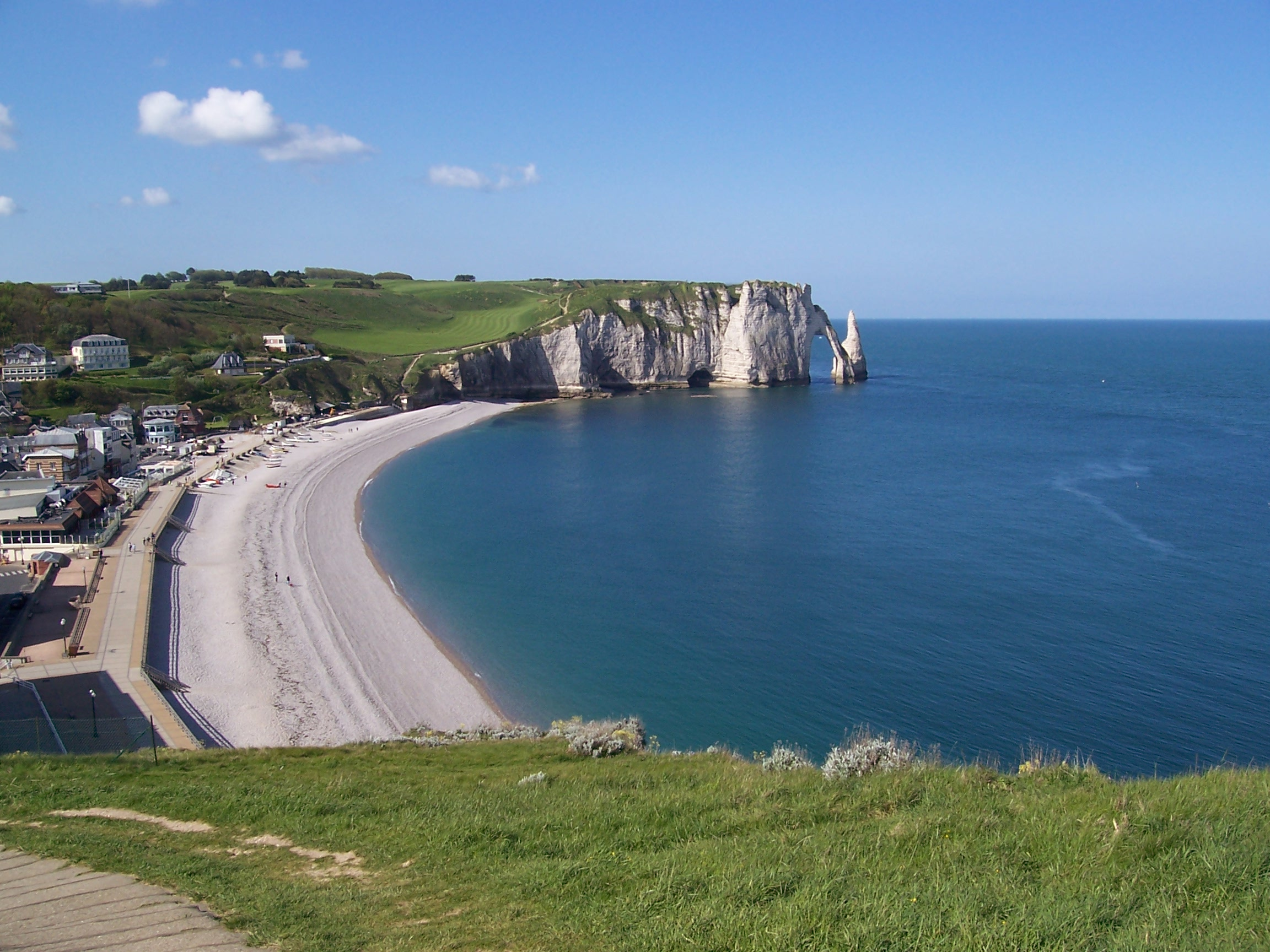 Etretat since cliffs upstream